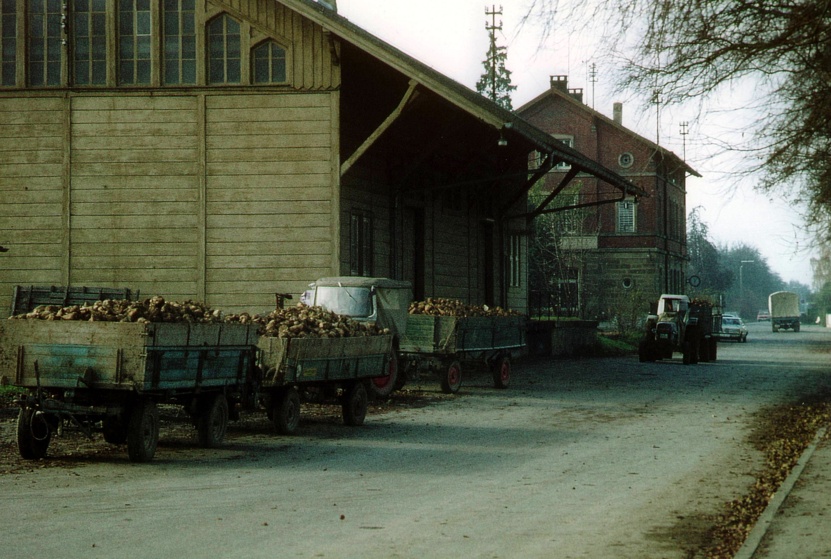 Shipment of sugar beets at the railway station of Freiberg am Neckar, October 1974